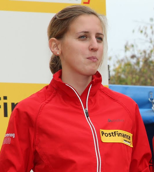 Caroline Cejka World Cup PostFinance 2010